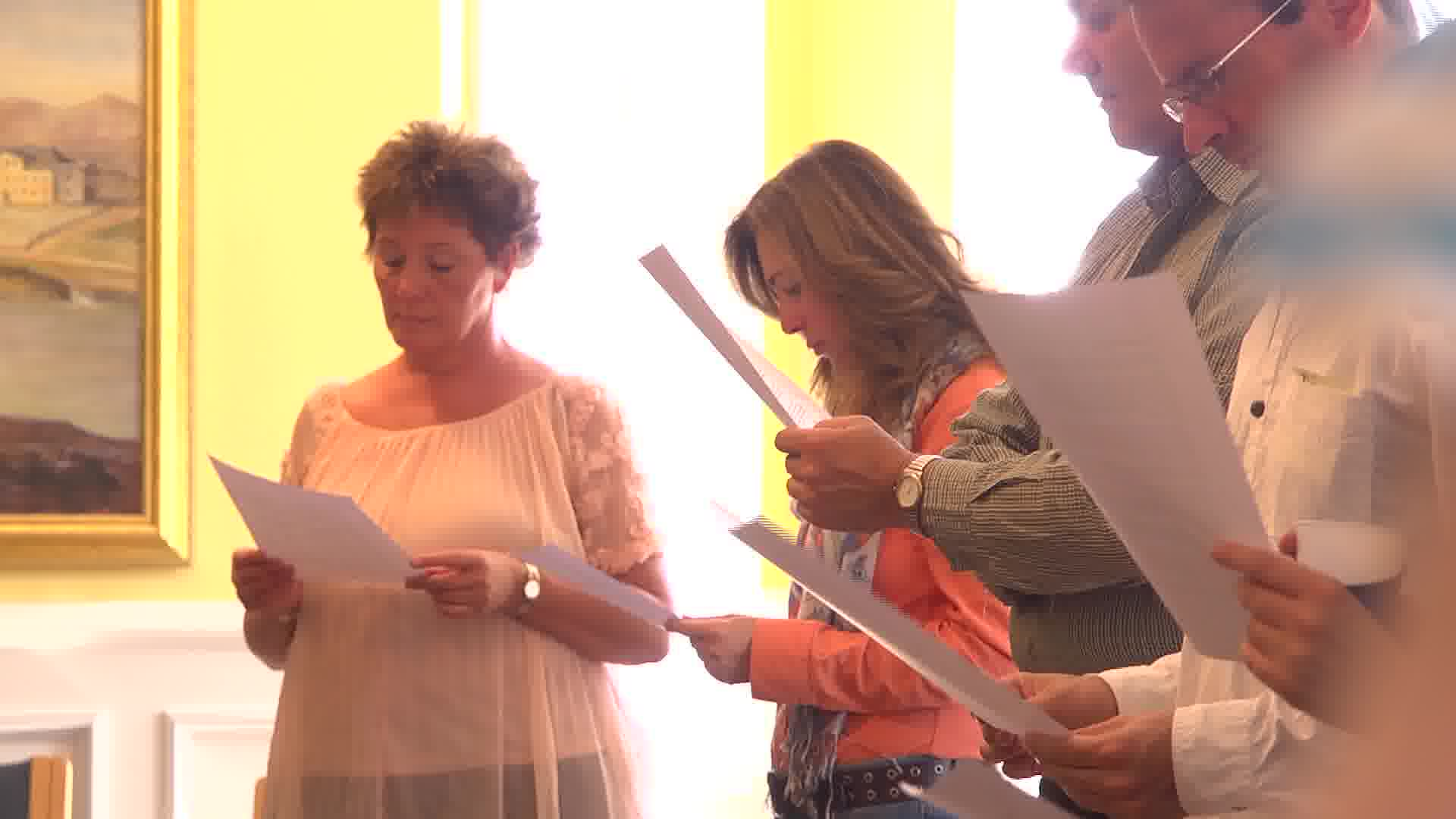 Bibliodramasession in Reykjavík